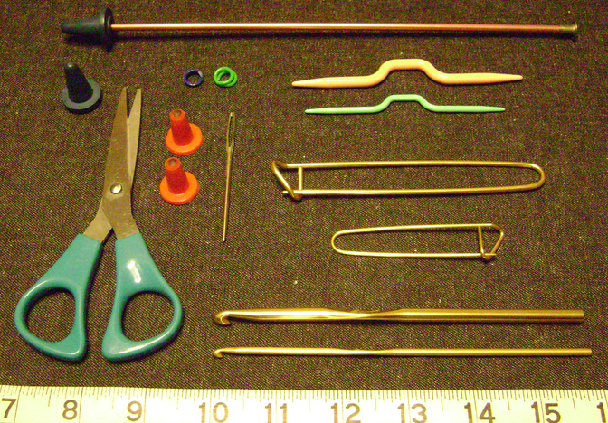 Sundry tools used in knitting, but no needles.